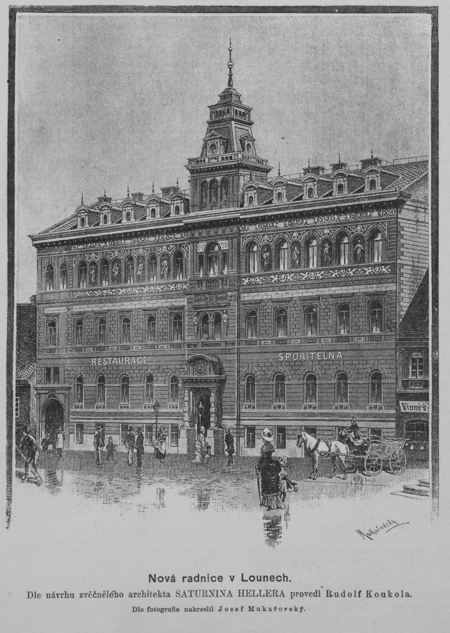 City hall in Louny in the present-day Czech Republic, built in 1880s by Rudolf Koukola according to a design by Saturnin Heller (1840 - 1884)